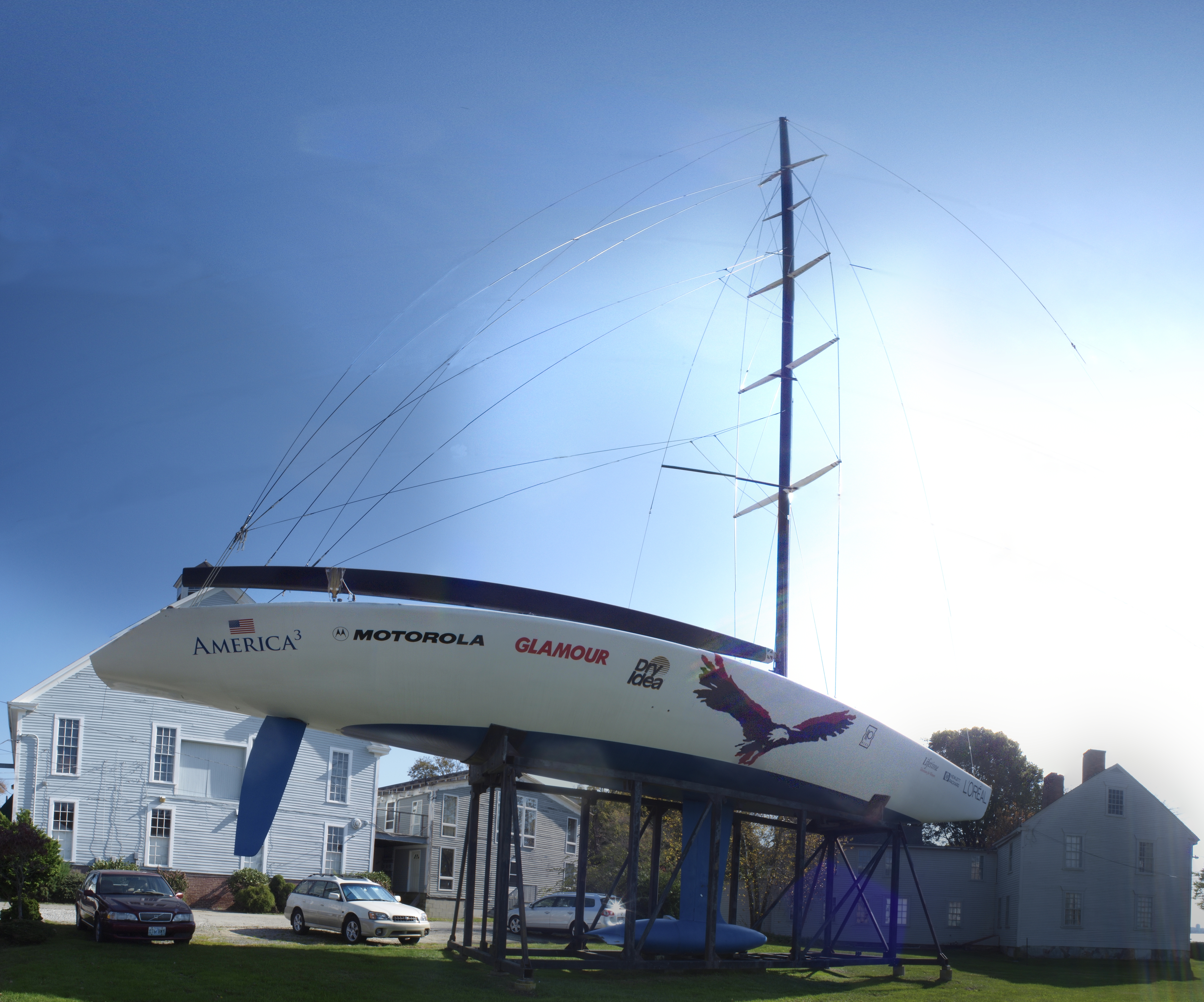 America³ on display outside the Herreshoff Marine Museum in Bristol, RI